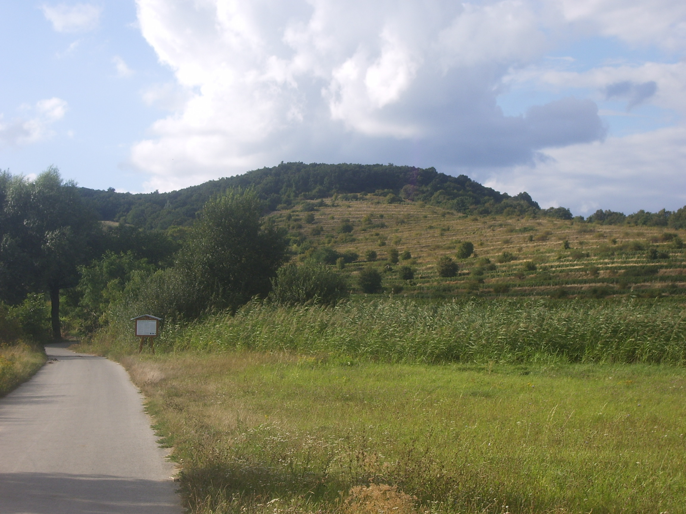 wineyards outside pezinok, pezinok, slovakia.